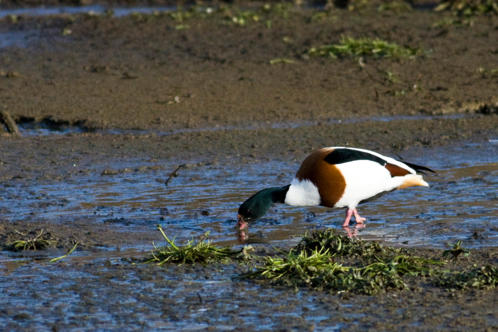 A Common Shelduck foraging for food in the mud around Rutland Water, Rutland, England. Photograph taken in January at a temperature of +3 deg with sun trying to shine, when the resourvour was frozen over.